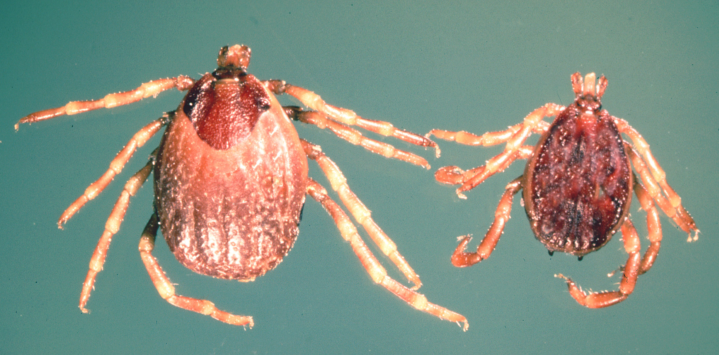 Female (left) and male (right) of Hyalomma anatolicum excavatum ticks.